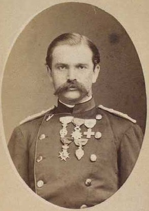 Søren Adolph Arendrup (1834-1875), Danish army officer